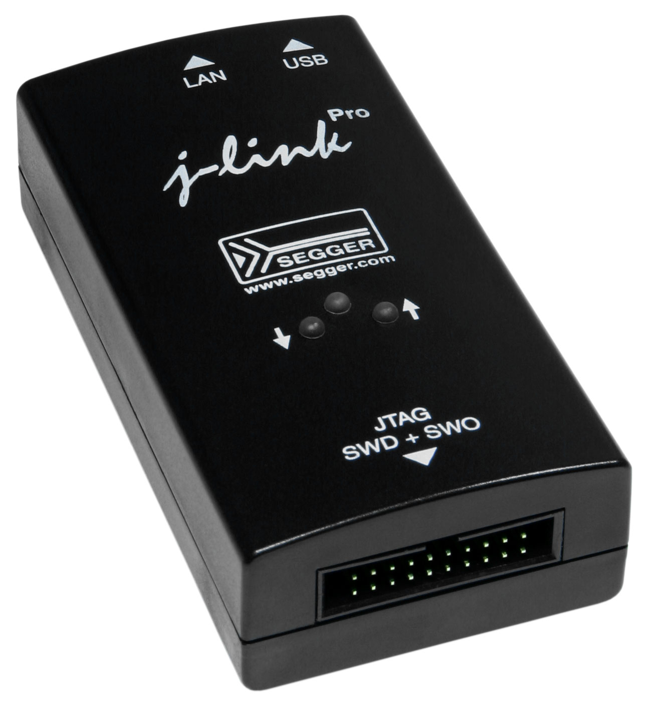 Segger J-Link PRO. JTAG/SWD debug probe for ARM microcontrollers with USB and Ethernet interfaces to host. (website)